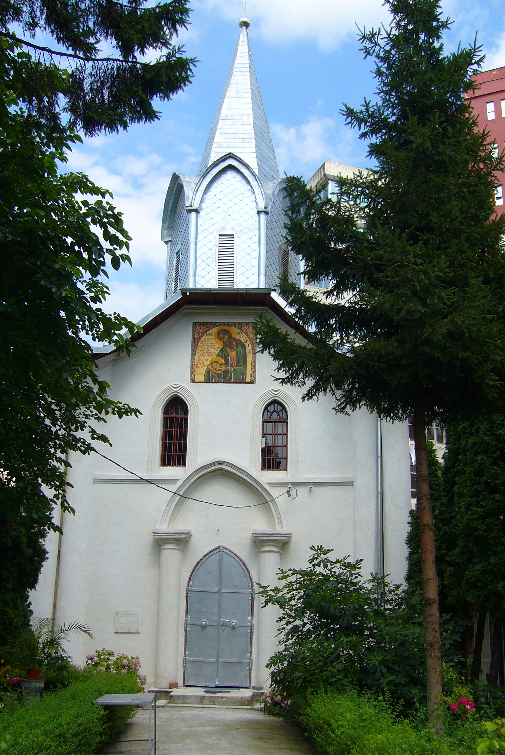 The Armenian Church (Armenian Apostolic) in Piteşti, Romania. It was built in 1852. 01